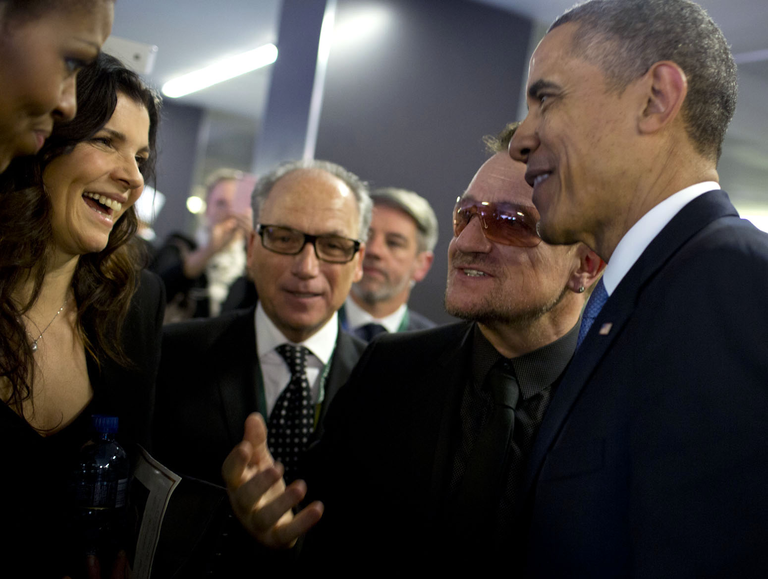 Bono and his wife, Ali Hewson, greet President and Mrs. Obama as they get ready to depart the memorial service for Nelson Mandela. (Official White House Photo by Pete Souza)